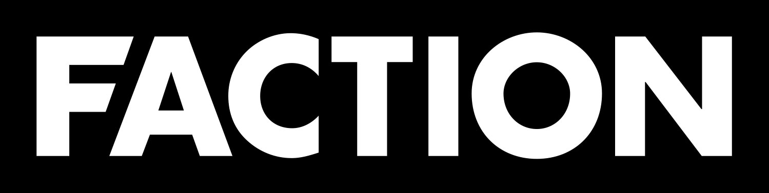 The Faction Collective Company Logo